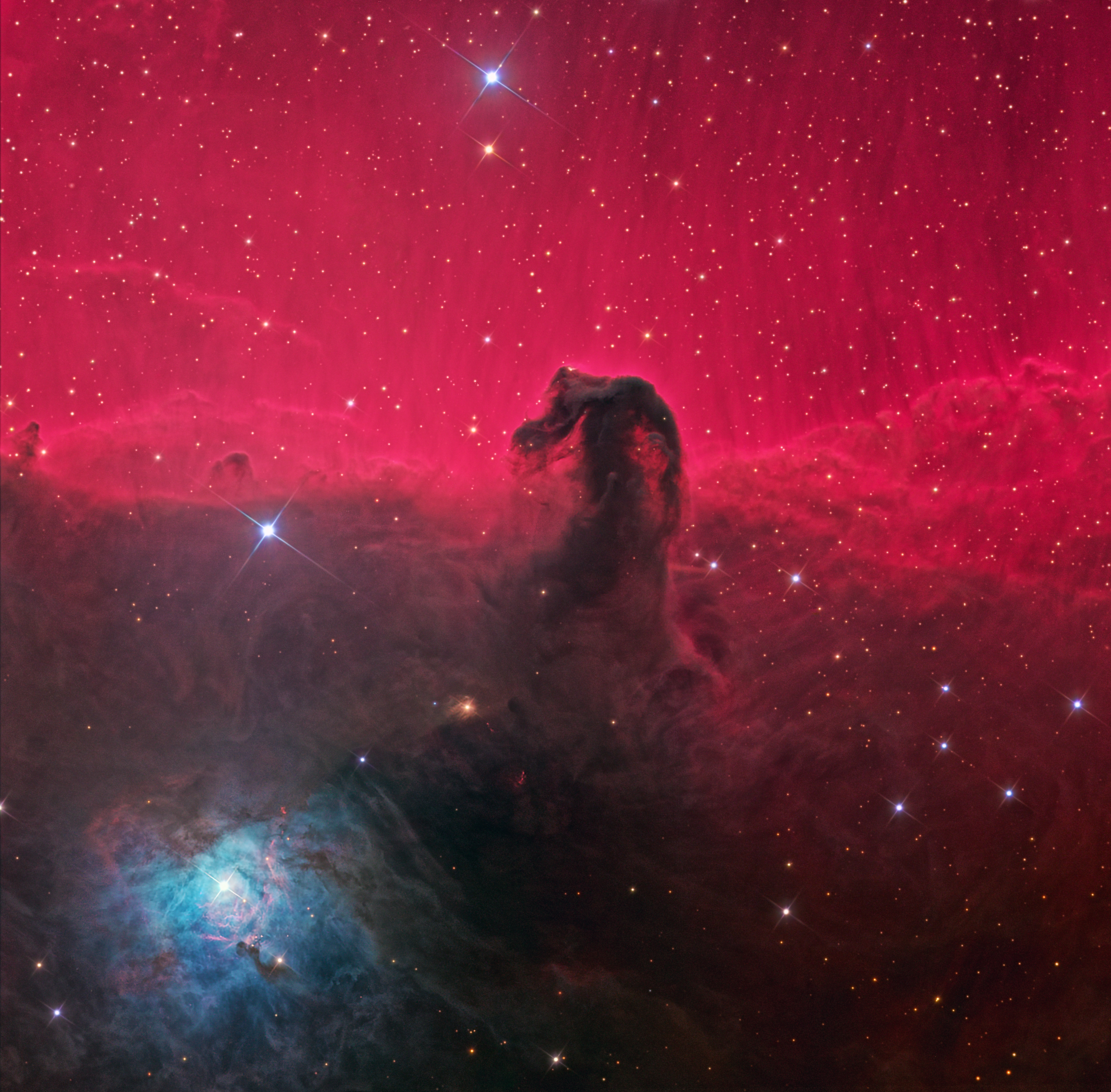 Horsehead Nebula (also known as Barnard 33 in emission nebula IC 434) is a dark nebula in the constellation Orion. The image is a frame mosaic taken with 5 different filters, standard Red – Green – Blue with details enhanced with narrowband data of Hydrogen-alpha (Hα) and O III. The Hα was color-mapped to red and the O III to teal. So it is a representative color image consisting of over 900 minutes of exposure time.